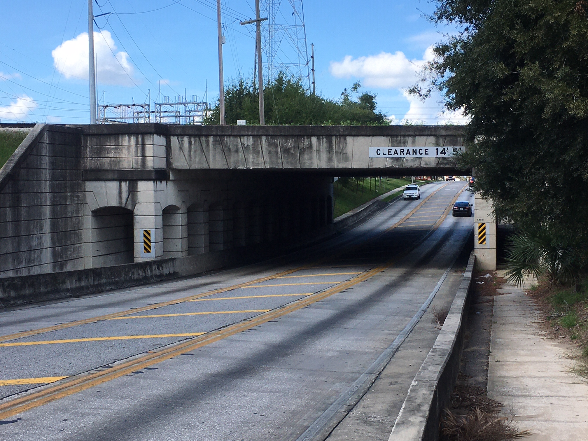 US 17/92 railroad underpass in Haines City, Florida